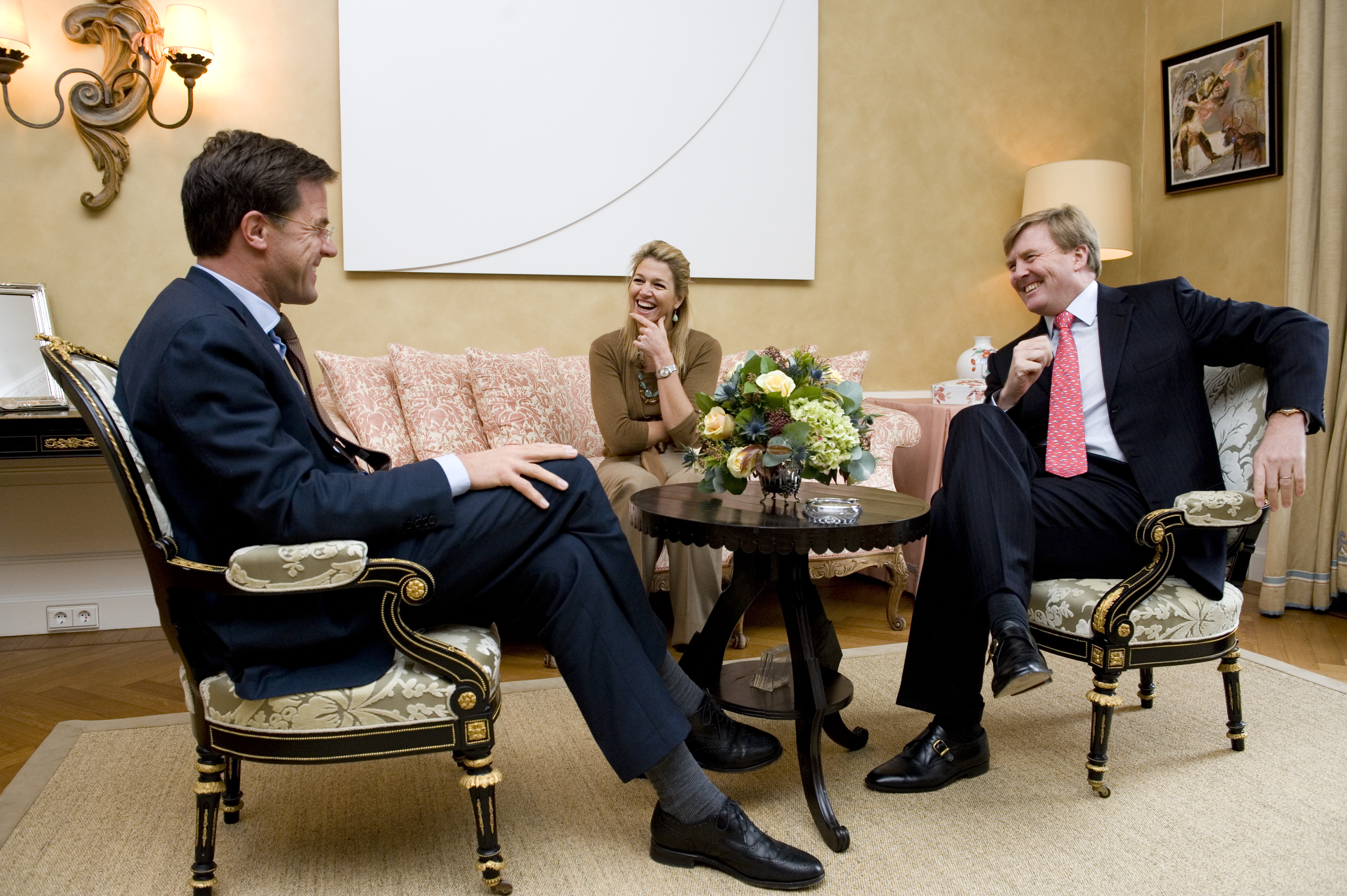 Minister-president Rutte in gesprek met de Prins van Oranje en Prinses Máxima in hun woonhuis de Eikenhorst te Wassenaar.